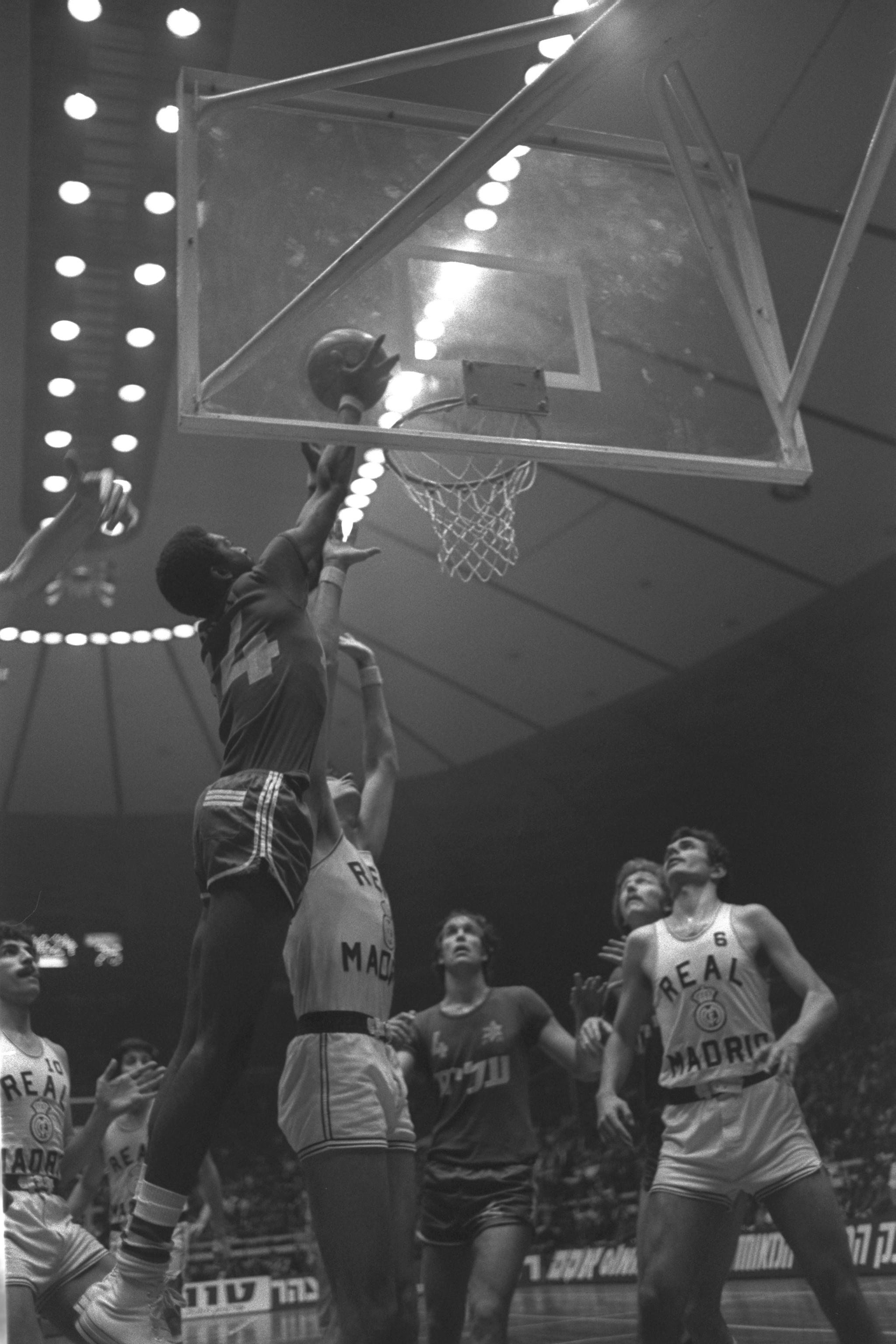 Maccabi Tel Aviv scoring against Real Madrid during a game held at Tel Aviv's Yad Eliyahu Stadium. מכבי תל אביב קולעת סל במשחקה כנגד ריאל מדריד באיצטדיון יד אליהו Photo: Yaakov Saar (1951–) Alternative names SA'AR YA'ACOV; Jacob Saar; Saʻar, YaʻaḳovDescriptionIsraeli photographerDate of birth 1951 Authority control : Q28751896 VIAF: 298161188 NLI: 001394176 creator QS:P170,Q28751896 , 01/16/1975